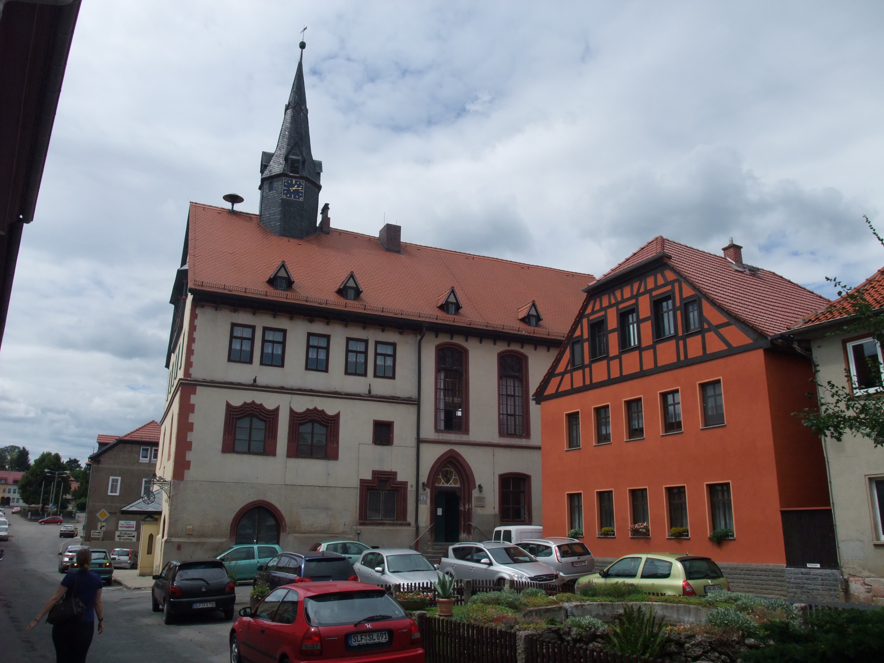 Town hall of Orlamünde, Thuringia, Germany